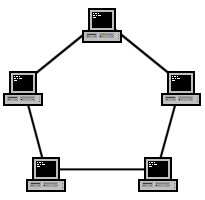 Ring network topology